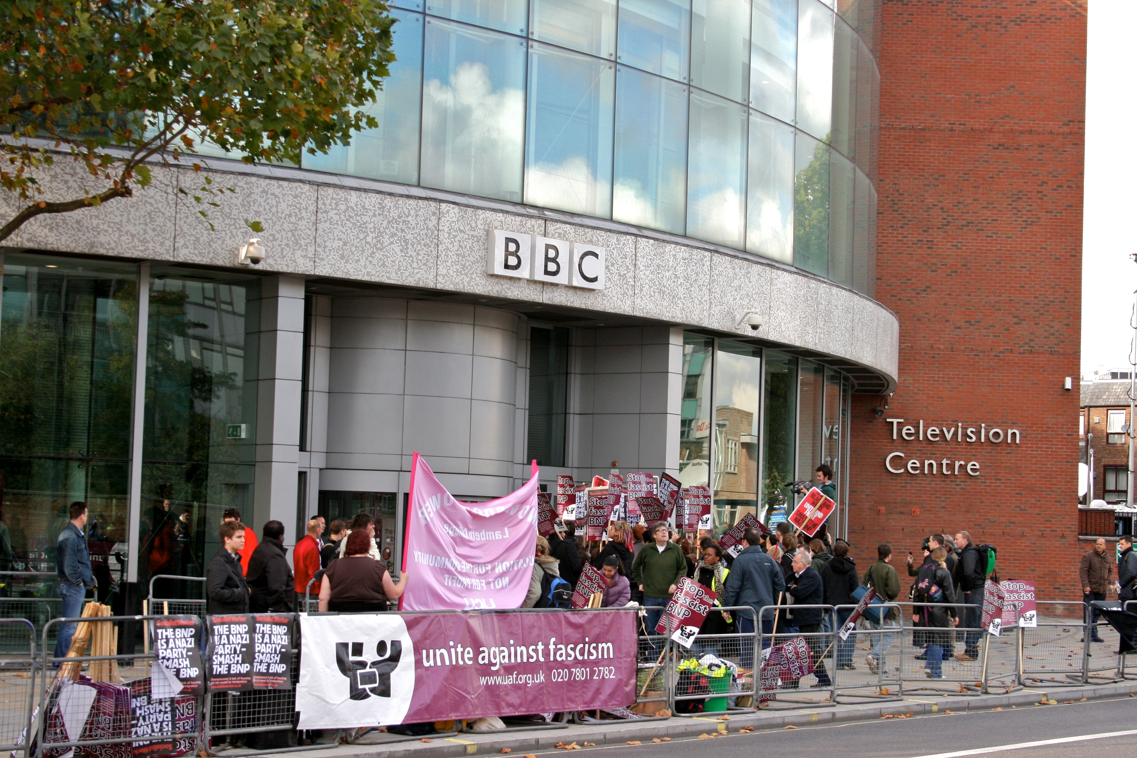 Protesters starting to gather outside of BBC Television Centre; see Question Time BNP controversy